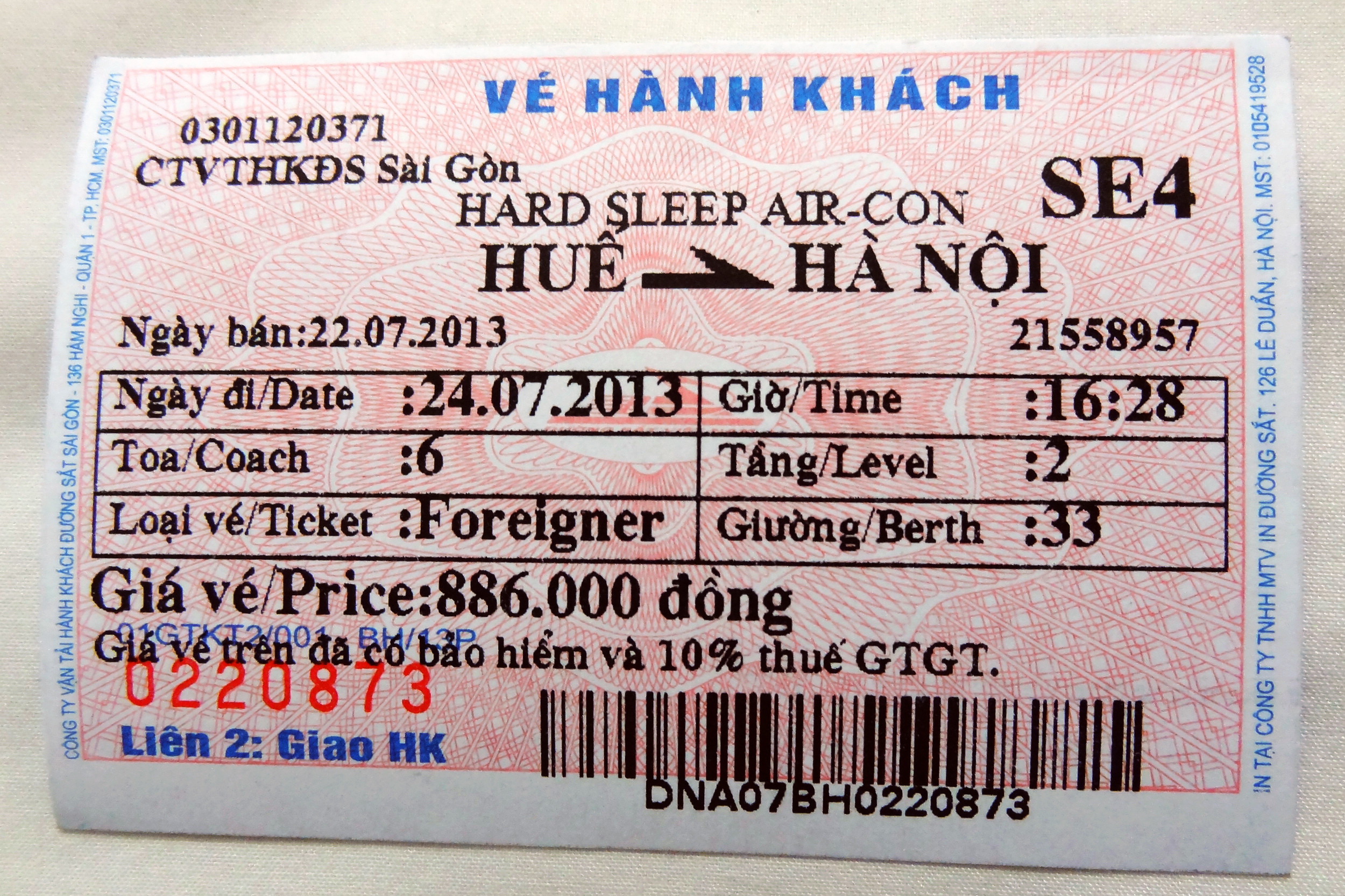 A passenger train ticket of Vietnam Railways, from Hue to Hanoi.